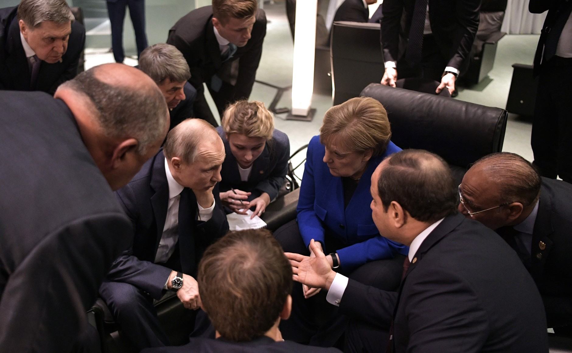 Vladimir Putin and Angela Merkel at the International conference on Libya, 19 January 2020.